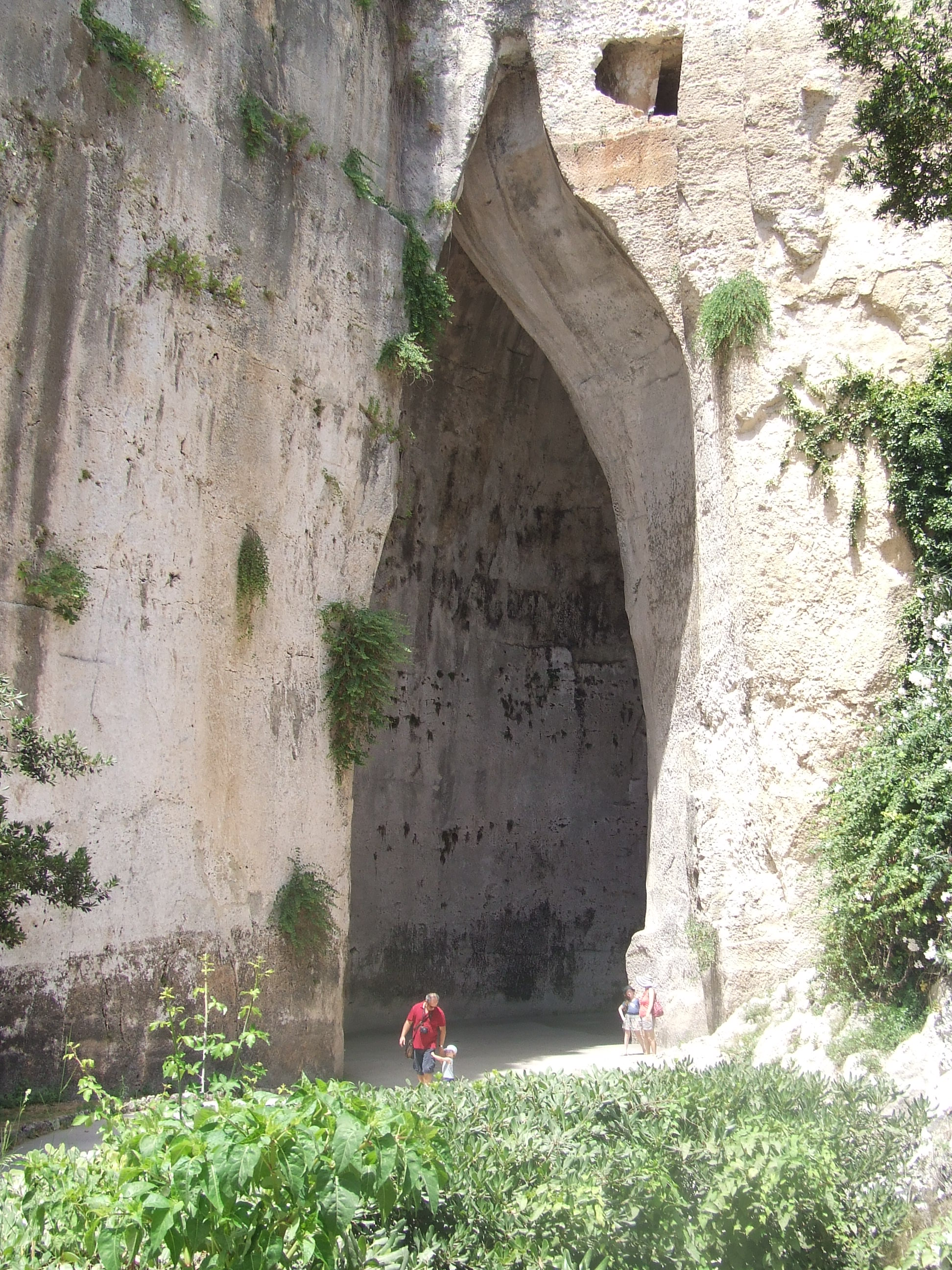 Exterior view of the Ear of Dionysius showing its context within the Archaeological Park.